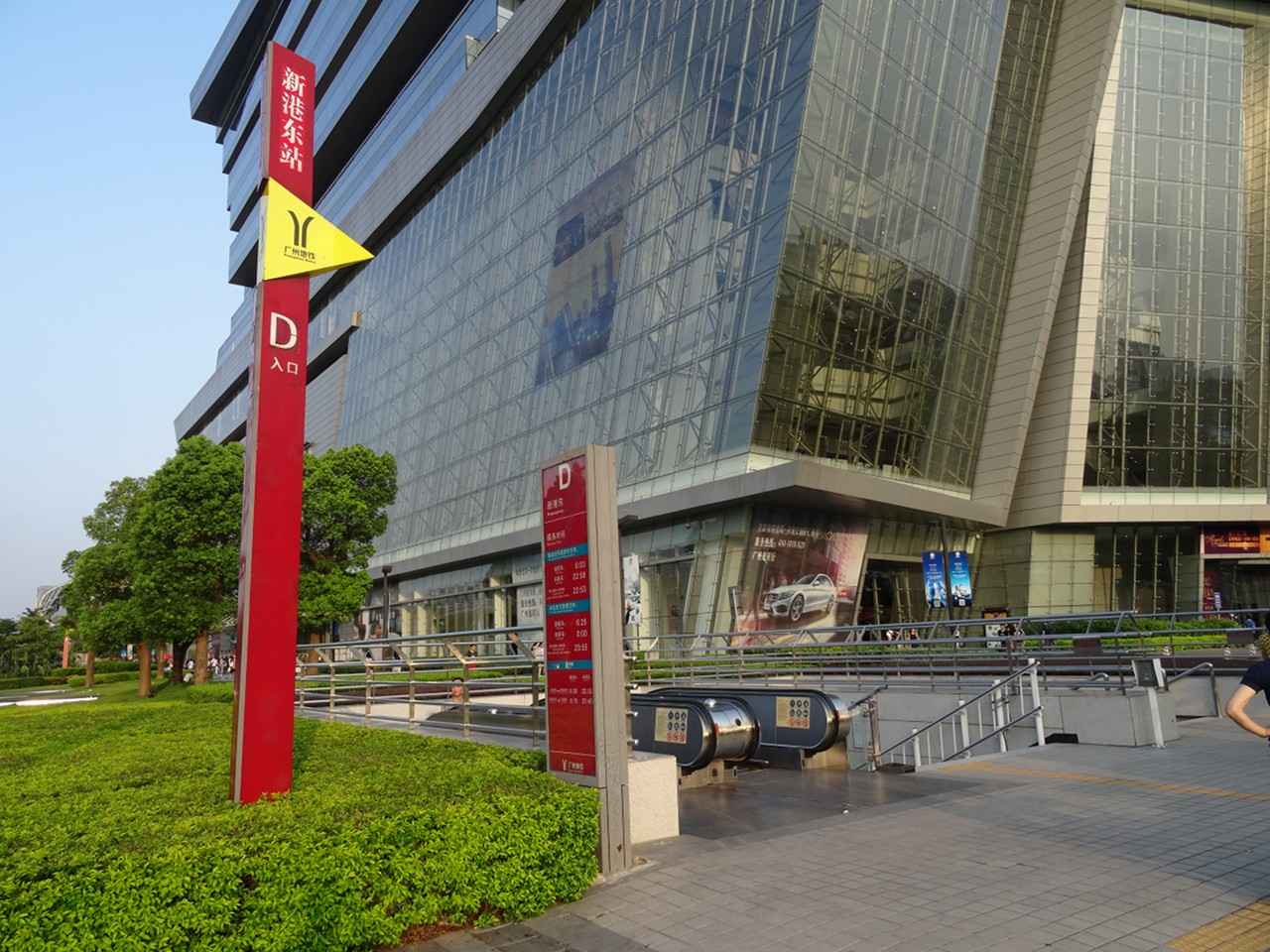 新港東站嘅D出入口